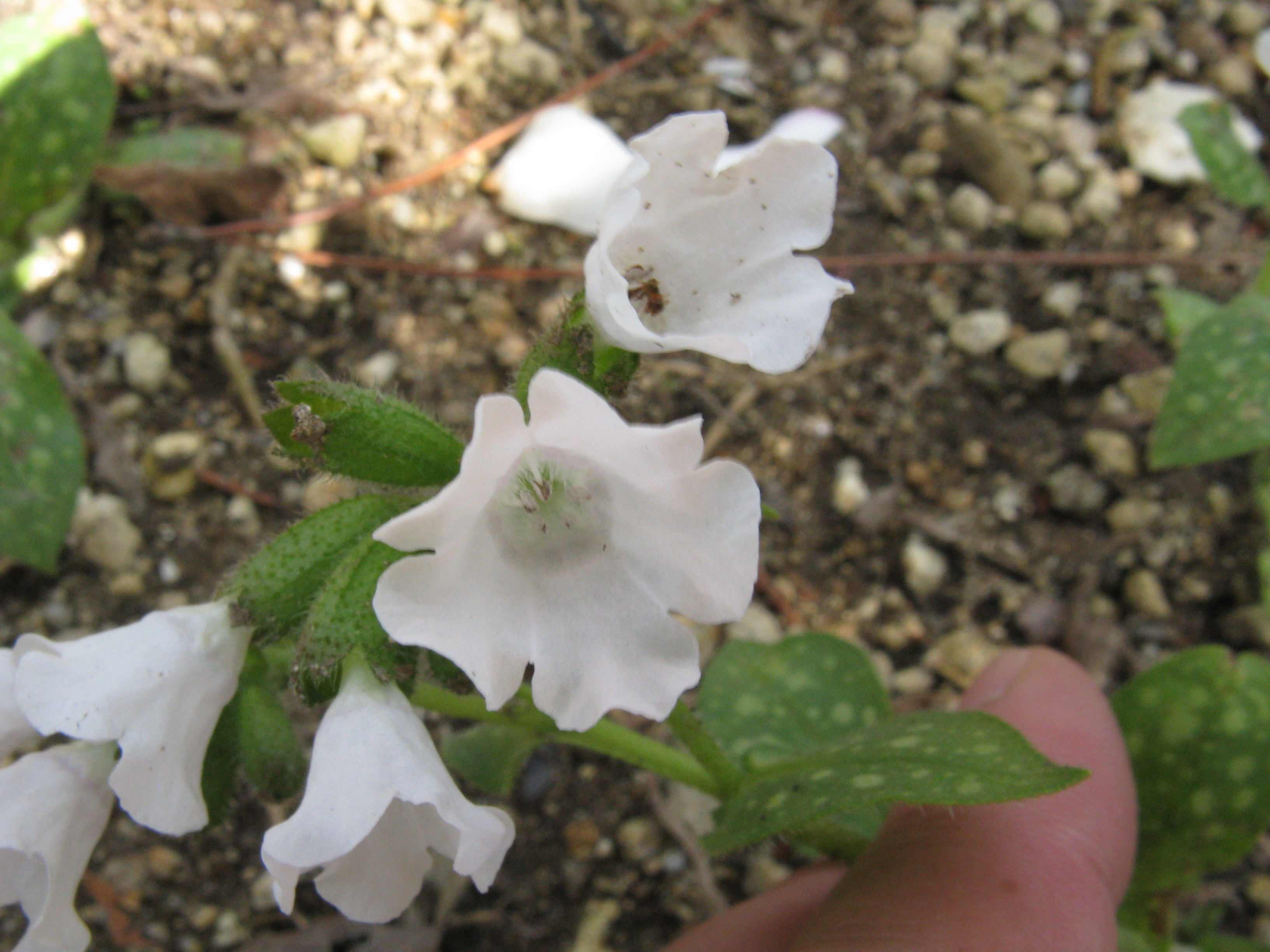 Pulmonaria officinalis 'Sissinghurst White'